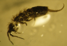 Surface-living springtail (Collembola) of the family Entomobryidae, size: ca. 5 mm